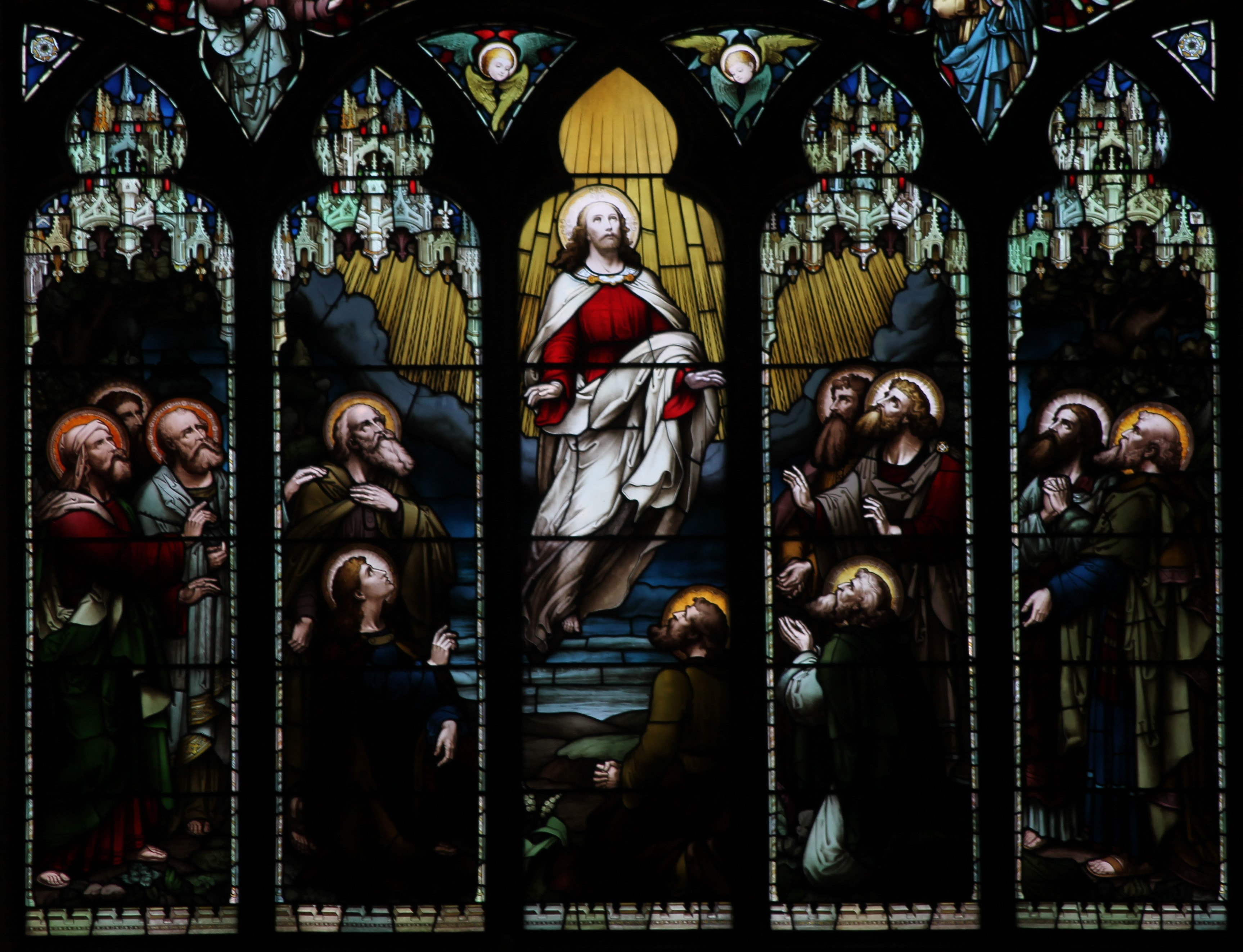 Jesus ascends into heaven surrounded by the apostles as depicted in the upper section of the great east window of St Giles' Cathedral, Edinburgh. The window was completed in 1877 by Ballantine & Son.